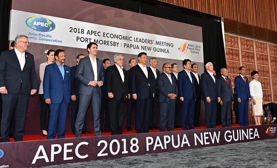 Meeting at the 2018 APEC Economic Leaders Meeting (Official White House photo by Myles D. Cullen)